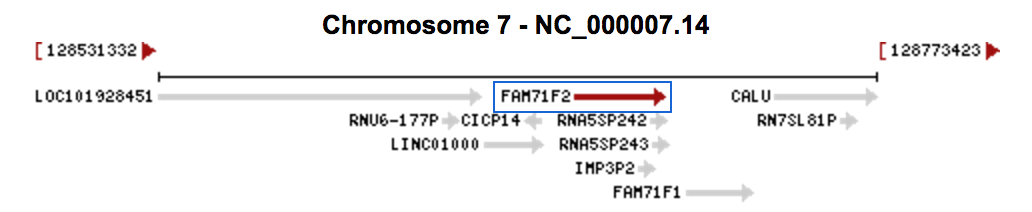 Location of the gene FAM71F2, which is labelled with a blue rectangle, on Chromosome 7, with neighboring genes.